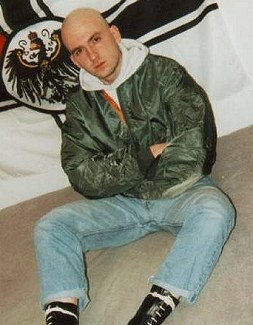 German Neonazi Skinhead